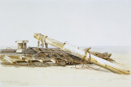 Wreck of the Ellen Southard lying on Crosby Sands, 13 October 1875